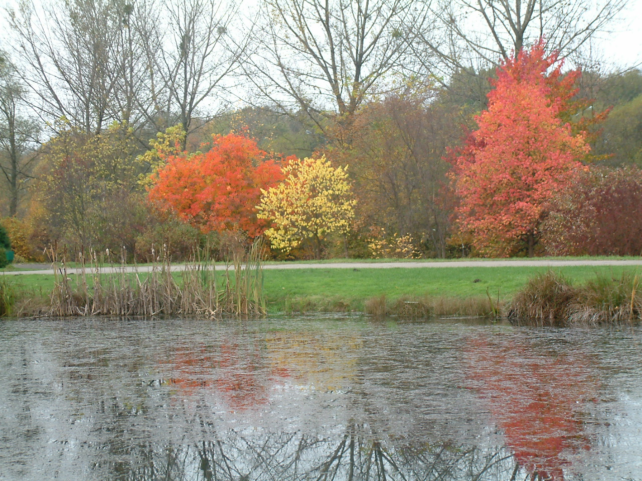 Autumn in Bothanical Garden in Poznań